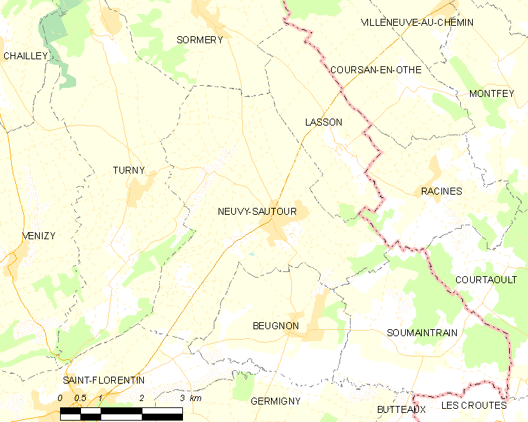 Map of French municipality Neuvy-Sautour